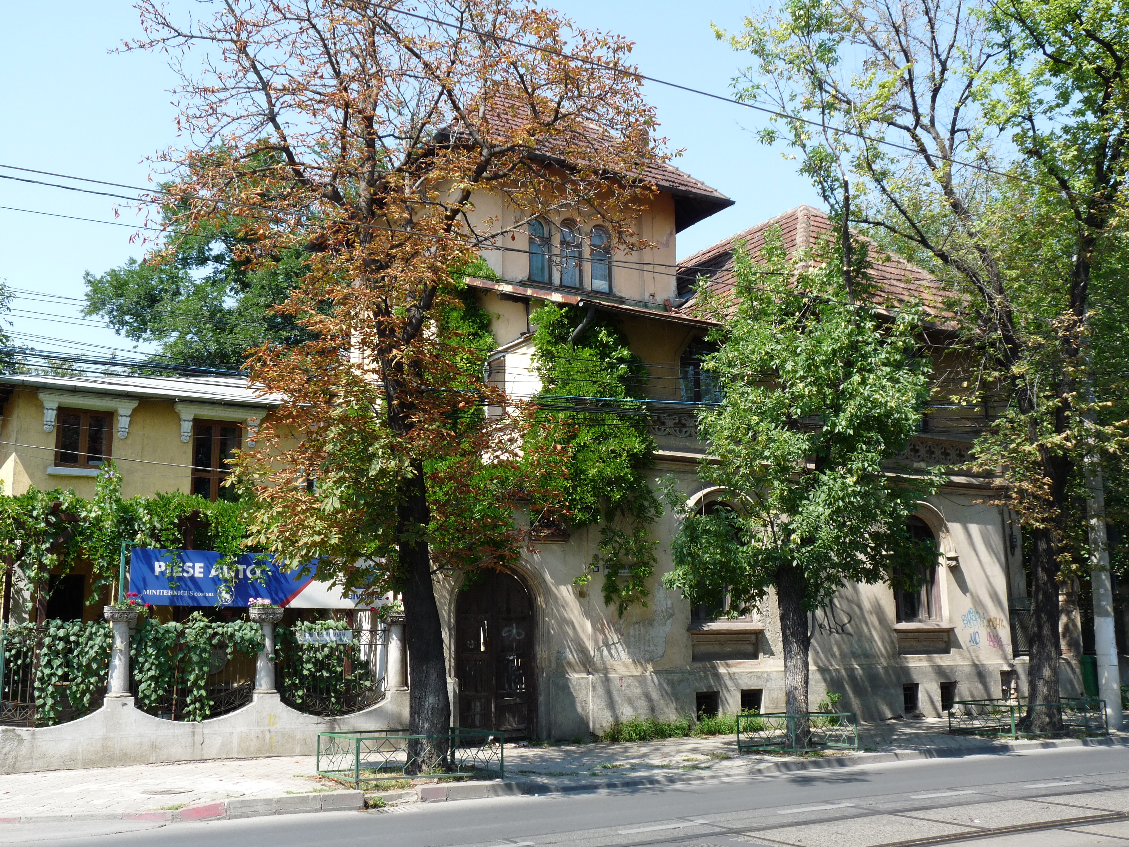 Historic building in Bucharest, Romania, on Regina Maria boulevard 66